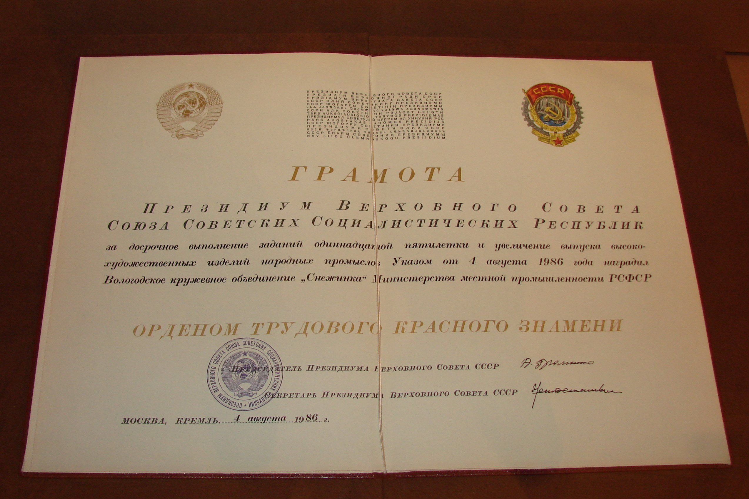 Russia, Vologda, Museum of lace